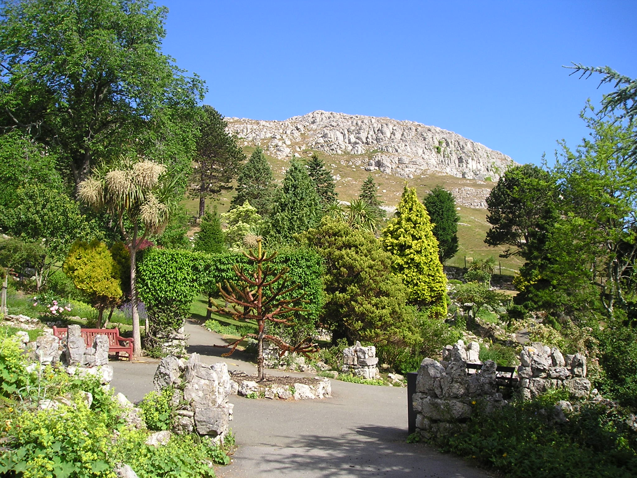 Llandudno in the Happy Valley gardens photograph taken by me, Noel Walley, on 18/06/2004.